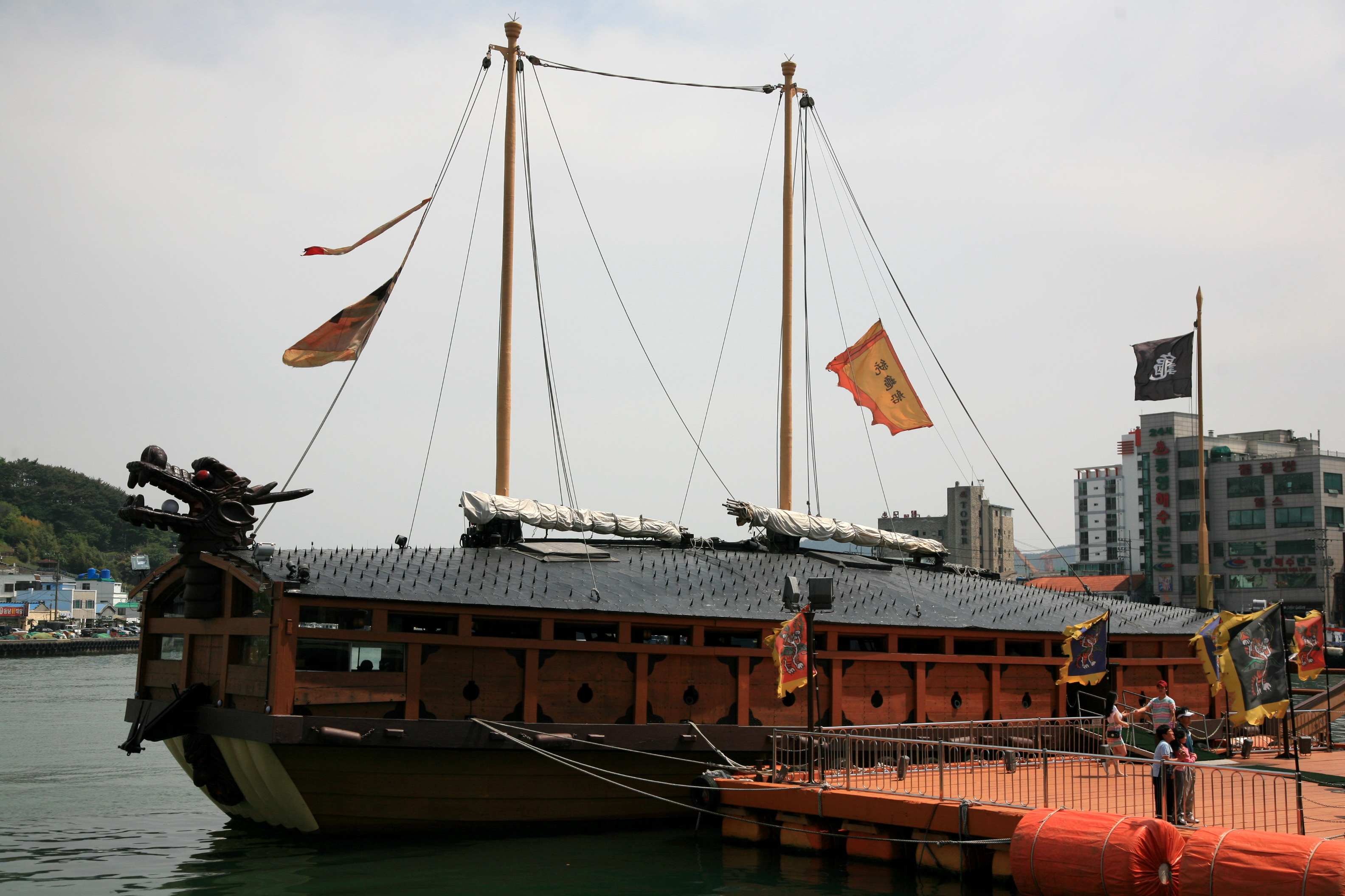 View of Hallyeo National Marine Park in Tongyeong, South Gyeongsang province, South Korea